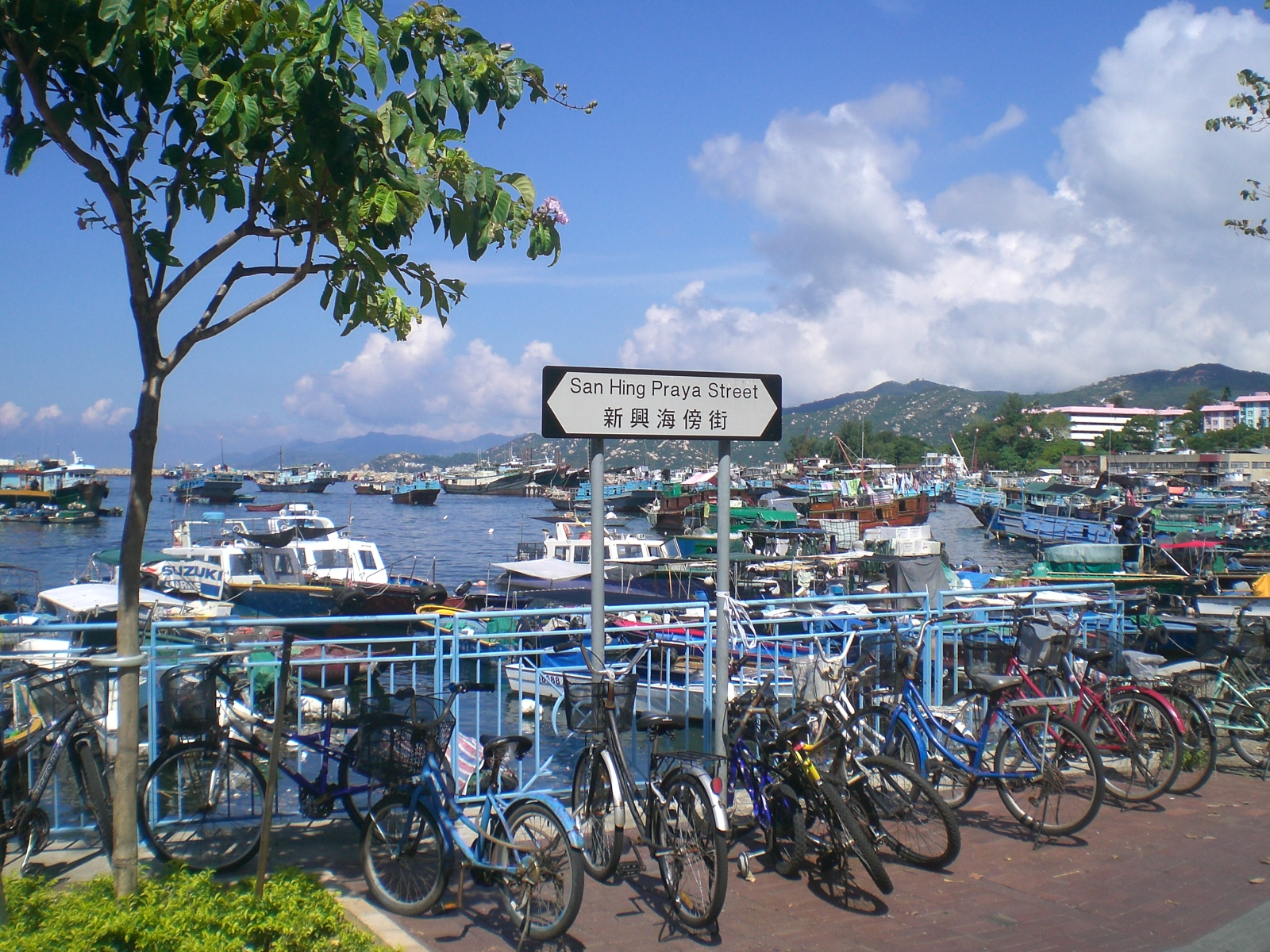 長洲zh:新興海傍街位於zh:長洲渡輪碼頭及zh:長洲避風塘毗鄰